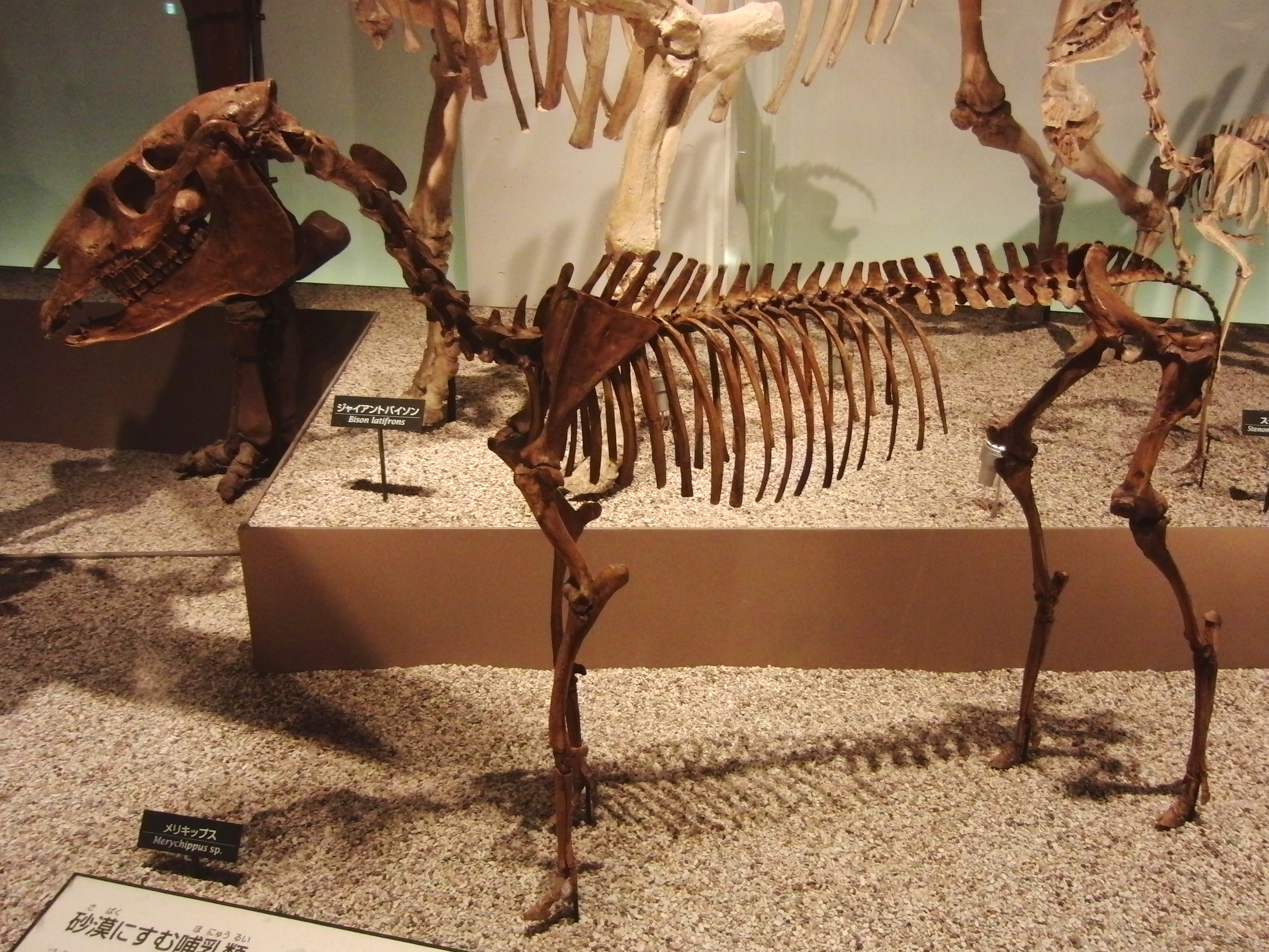 Skelton of Merychippus (Merychippus sp.). Exhibit in the National Museum of Nature and Science, Tokyo, Japan.